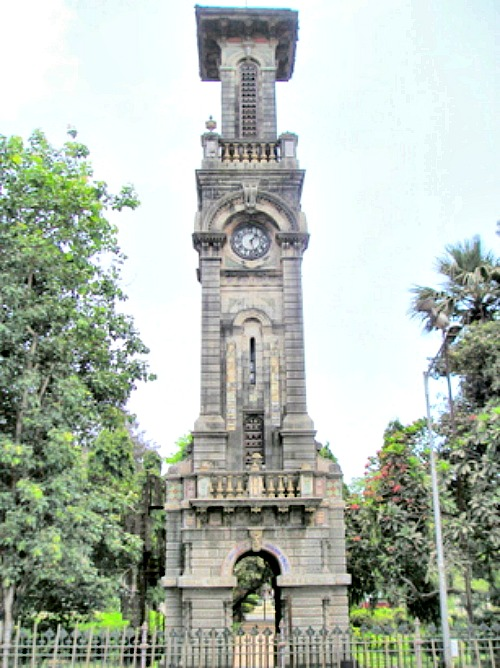 The oldest museums of Mumbai